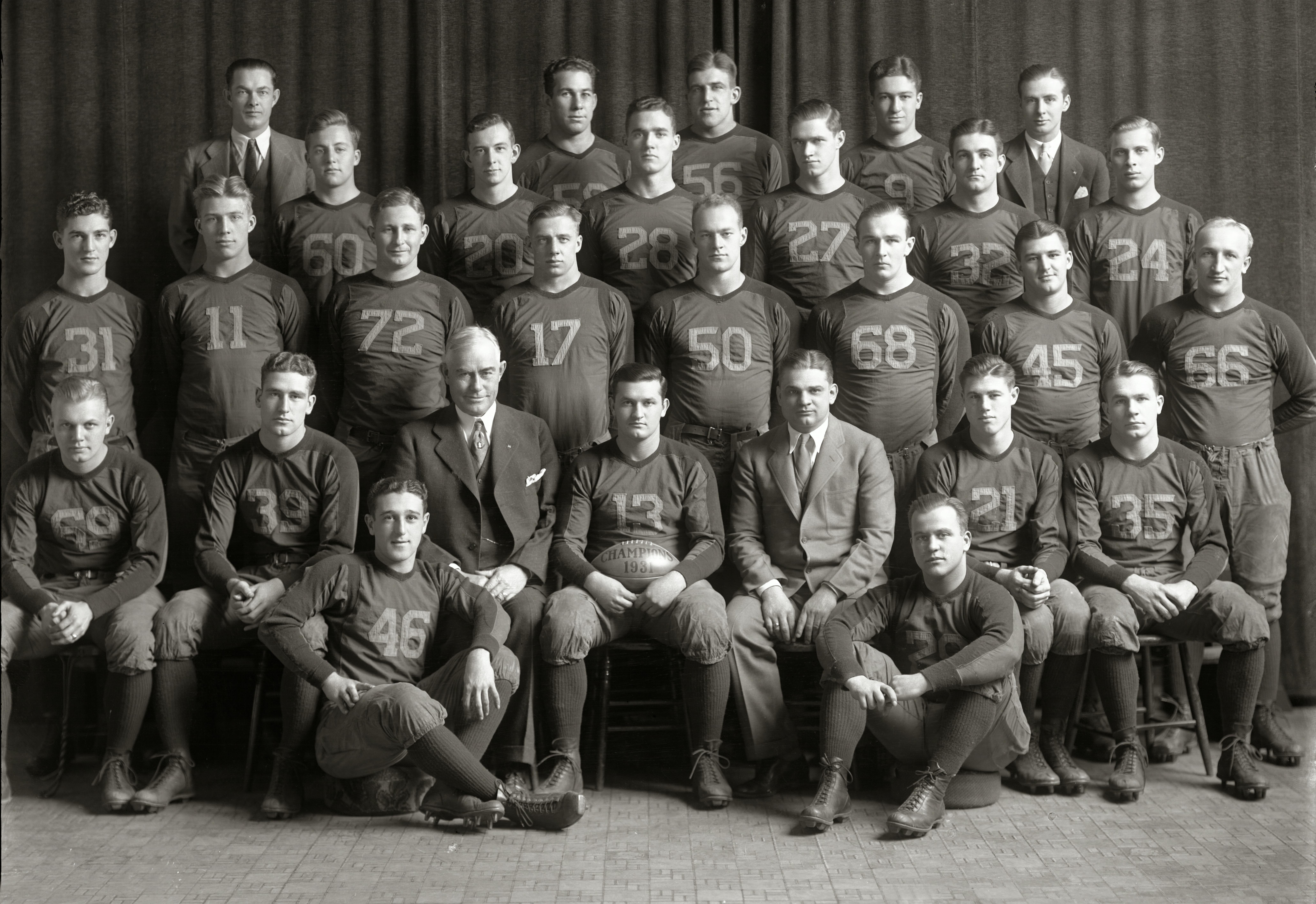 Photograph of 1931 Michigan Wolverines football team This work is in the public domain because it was published in the United States between 1925 and 1963 and although there may or may not have been a copyright notice, the copyright was not renewed. Unless its author has been dead for the required period, it is copyrighted in the countries or areas that do not apply the rule of the shorter term for US works, such as Canada (50 pma), Mainland China (50 pma, not Hong Kong or Macao), Germany (70 pma), Mexico (100 pma), Switzerland (70 pma), and other countries with individual treaties. See Commons:Hirtle chart for further explanation. This work is in the public domain in the United States because it was published in the United States between 1925 and 1977, inclusive, without a copyright notice. For further explanation, see Commons:Hirtle chart as well as a detailed definition of "publication" for public art. Note that it may still be copyrighted in jurisdictions that do not apply the rule of the shorter term for US works (depending on the date of the author's death), such as Canada (50 p.m.a.), Mainland China (50 p.m.a., not Hong Kong or Macao), Germany (70 p.m.a.), Mexico (100 p.m.a.), Switzerland (70 p.m.a.), and other countries with individual treaties.